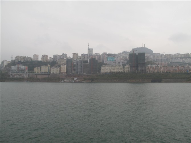 China Chongqing Yunyang_skyline